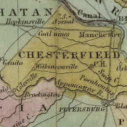 Includes statistical tables of population according to the census of 1820. Population data for towns and counties pasted on verso of front cover. Inset: Plan of Washington City & Georgetown. National Endowment for the Humanities Grant for Access to Early Maps of the Middle Atlantic Seaboard. Prime meridians Washington and Greenwich. Relief shown by hachures.